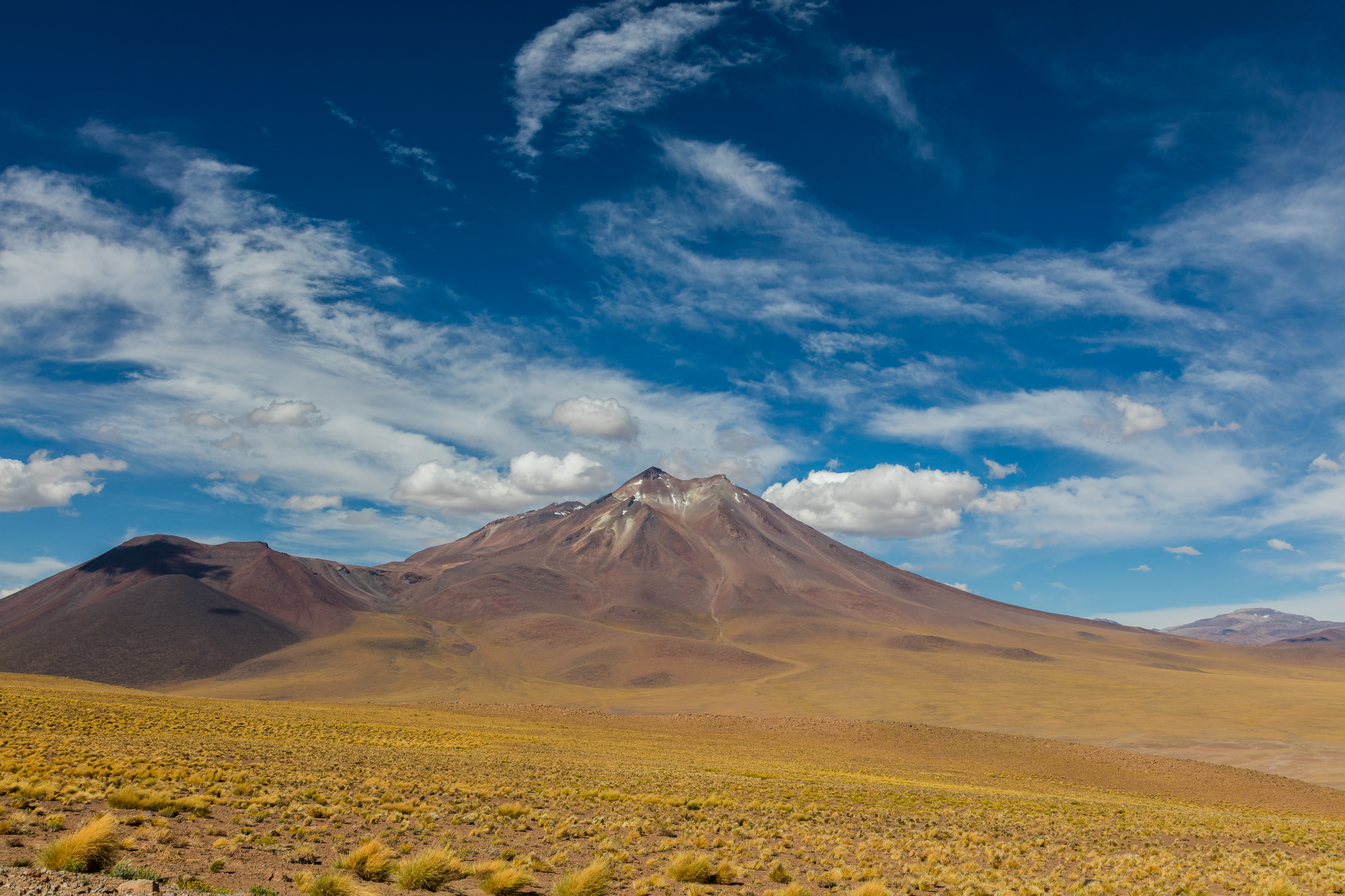 Miñiques Volcano, Chile